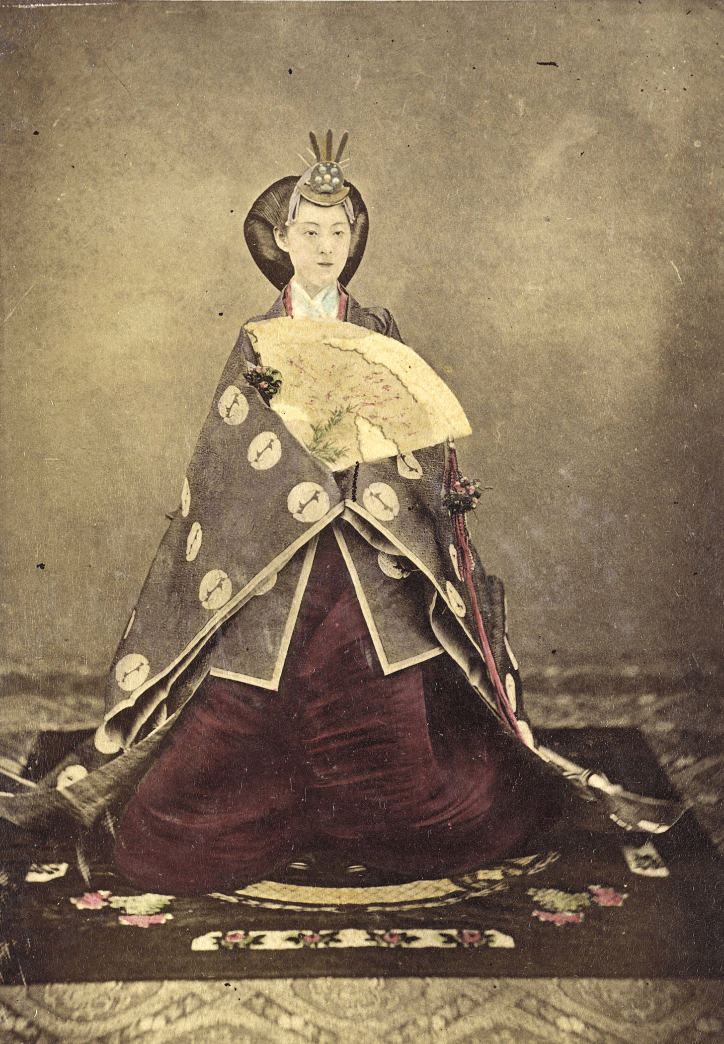 1865 Photographs Albumen print, hand-colored Unframed: 5 1/8 x 3 in. (13.02 x 7.62 cm) Gift of Mrs. Ruthe Feldman in memory of Philip Feldman (M.91.377.2) Photography